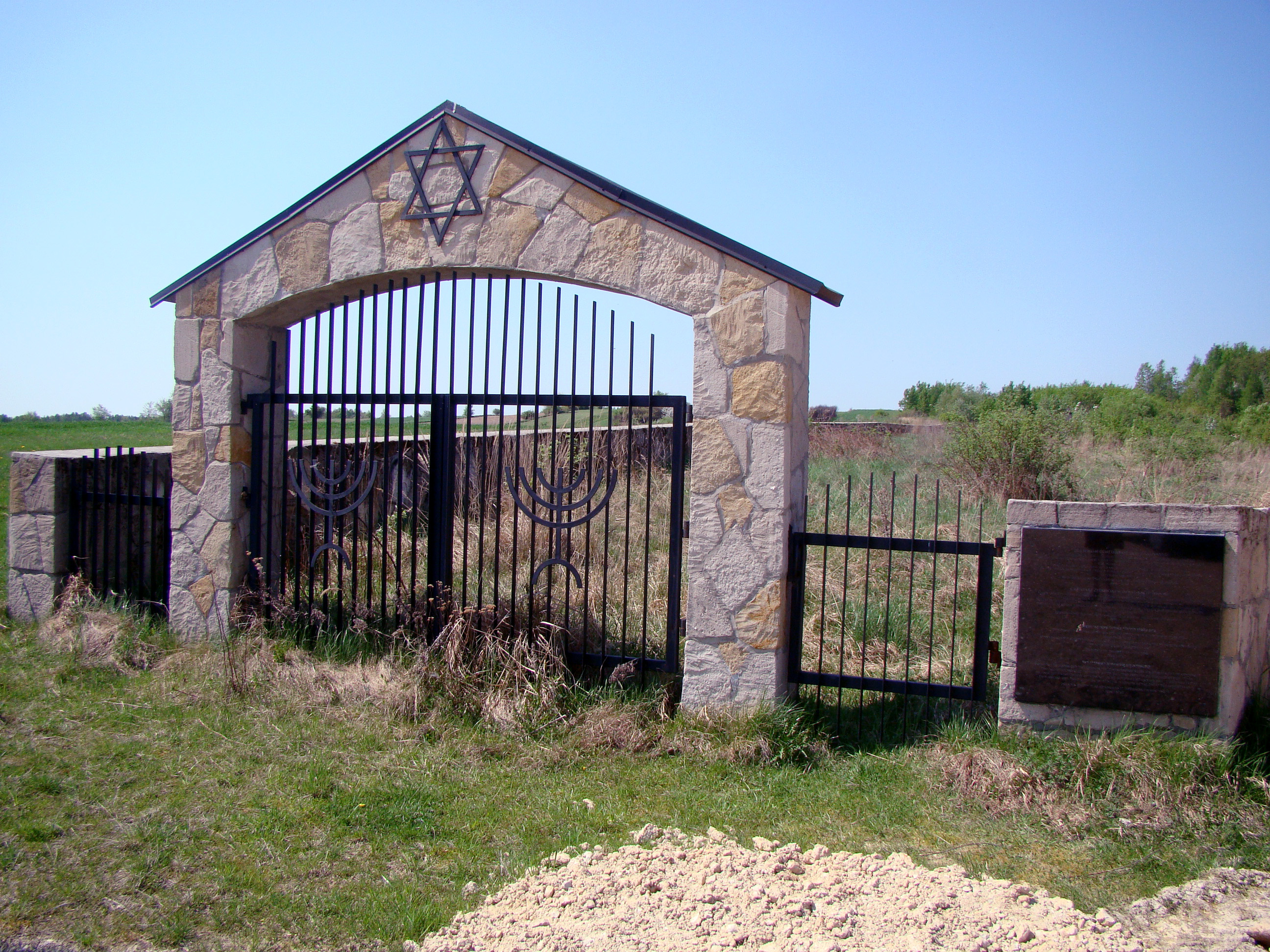 Jewish cemetery in Iwaniska - gate